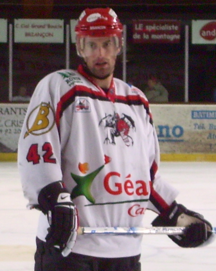 Marton Vas, hungarian ice hockey player with Briançon. Friendly game against Morzine-Avoriaz.